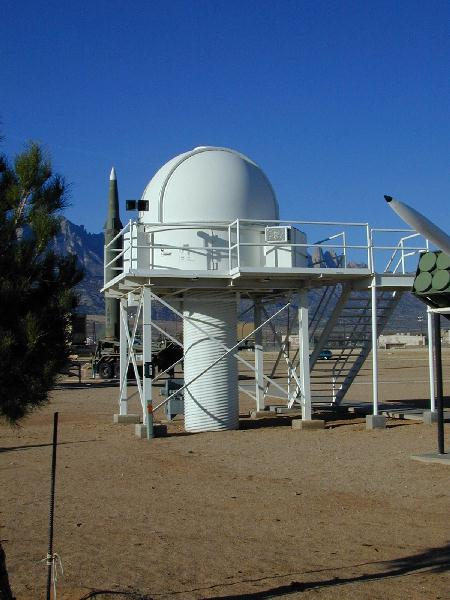 Contraves cinetheodolite Electro Optical Tracking System model F (EOTS-F) dome